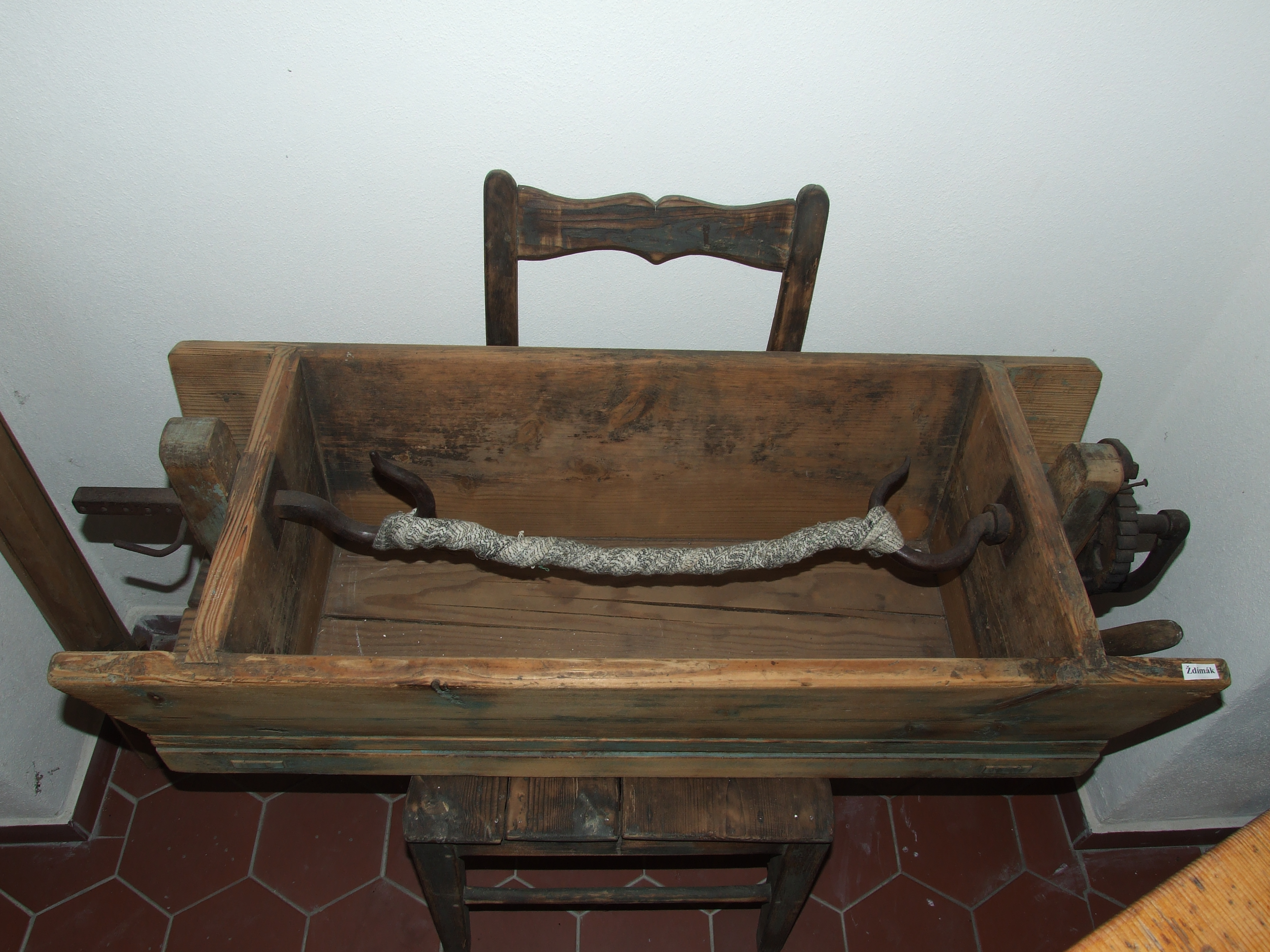 Municipal museum Nové Město nad Metují